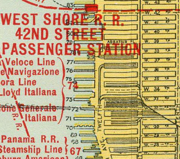 Fragment of NYCRR map, 1918: West Side freight yards between 27th and 43rd Streets.